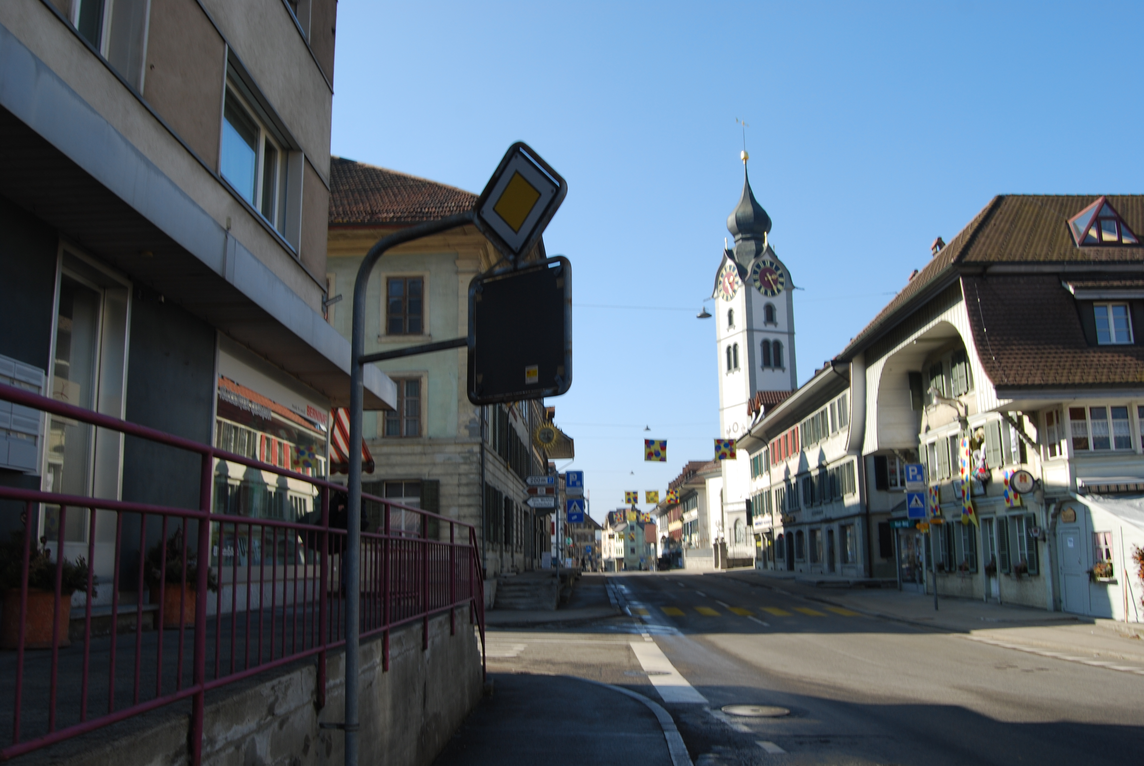 Protestant Church of Huttwil, canton of Bern, Switzerland